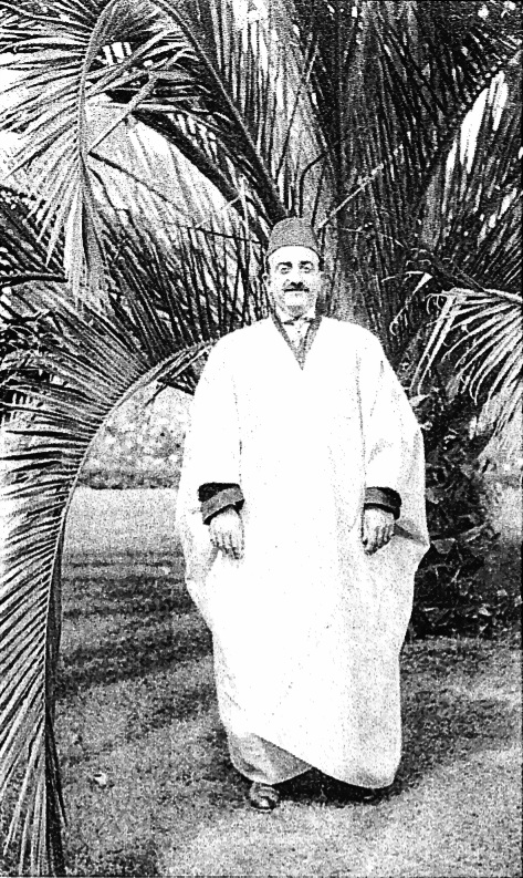 Shua Ullah Behai wearing traditional Middle Eastern robe (abaya) and felt hat (tarboosh)